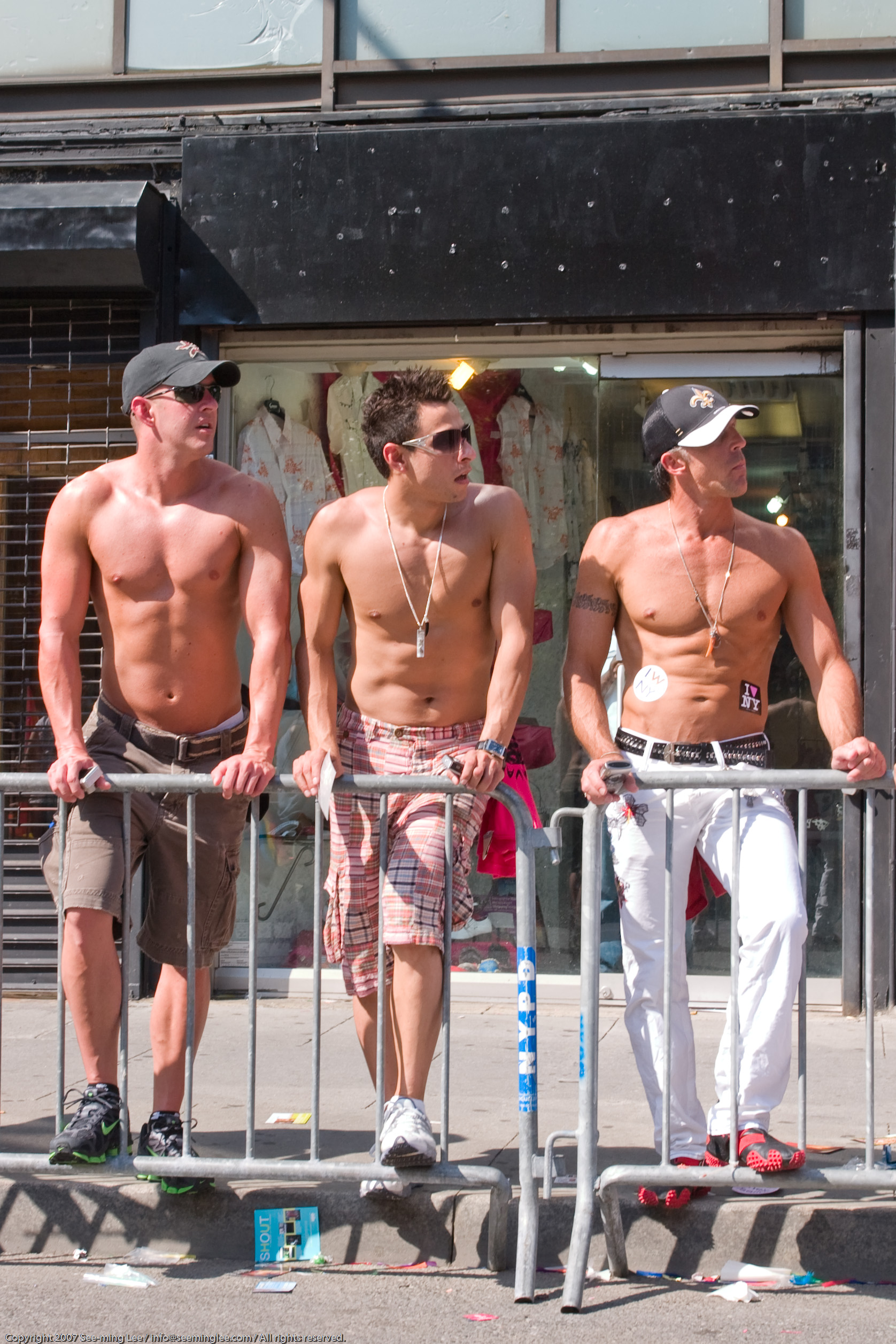 Photograph taken at the Gay Pride Parade in New York on Sunday, June 24, 2007, Walking down from 52nd Street + 6th Avenue to West Side Highway + Christopher Street. Direct URL Gay Pride New York 2007 Flickr Sets 200 Highlights / Gay Pride New York 2007 (Set) 200 Most Interesting / Gay Pride New York 2007 (Set) Annual Faerie + Church Ladies for Choice Drag March (Set) Coney Island Mermaid Parade 2007 (Set) Folsom Street East 2007 (Set) Gay Pride Parade New York 2007 (Set) Humanity / Portraits from Gay Pride New York 2007 (Set) Radical Faeries Drum Ritual / Gay Pride New York 2007 (Set) Content Syndication You may syndicate this content for non-commercial purposes as long as you attribute credits to me. Commercial usage will be considered on a case-by-case basis. Model Credits If you are the model of the photograph, email me at mailto: so I can give you proper credits. SML Copyright Notice Copyright 2007 ( All rights reserved.